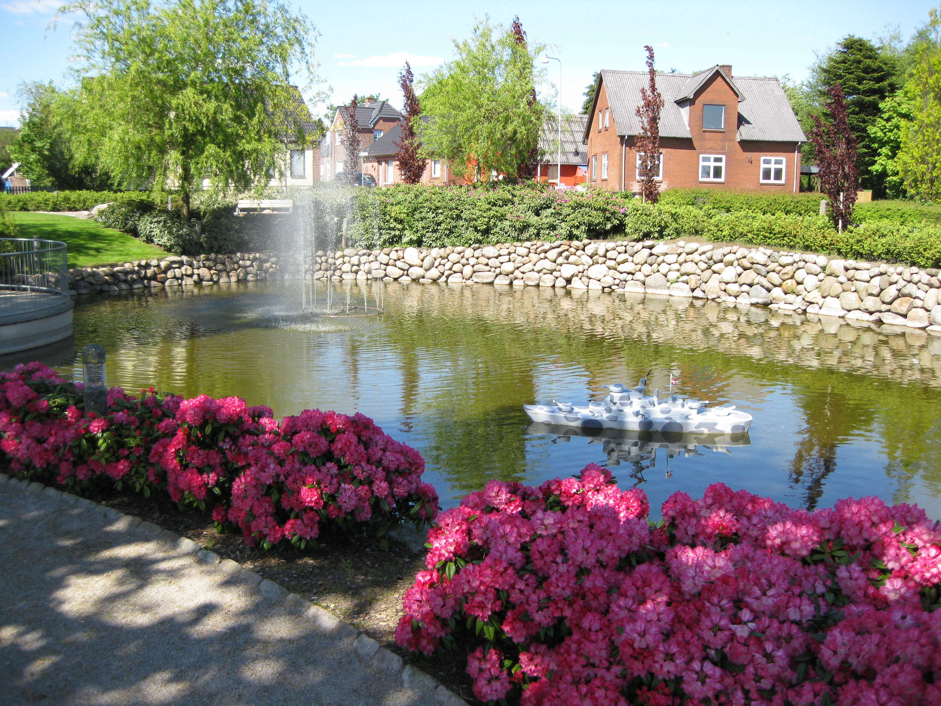 The village pond "Vorbasse Krigshavn" in the small town "Vorbasse". The town is located in Billund Kommune, South-Central Jutland, Denmark. ("Krigshavn" means "Naval Port").